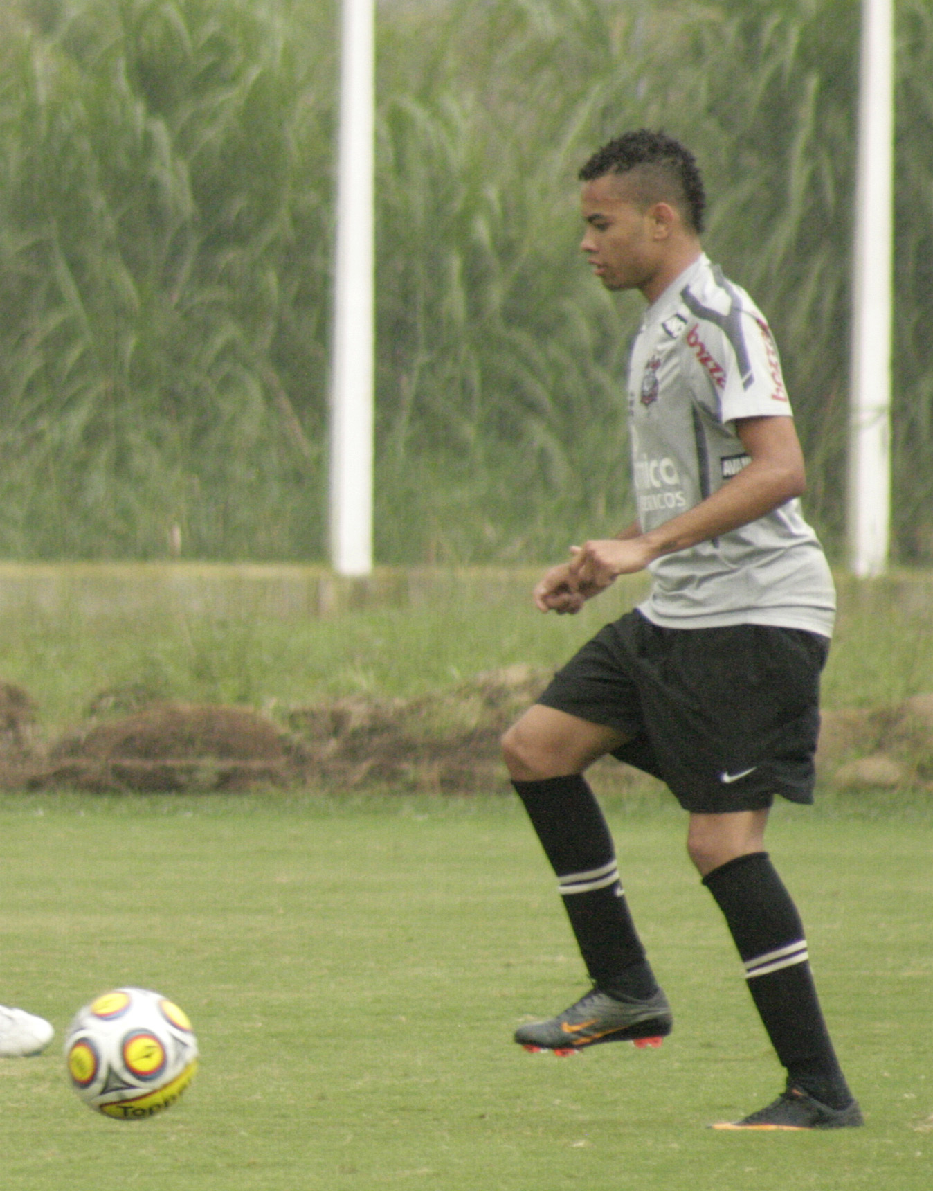 Bruno Ferreira Bonfim, known as "Dentinho" during the practice in Itaquera, Sao Paulo Brazil.